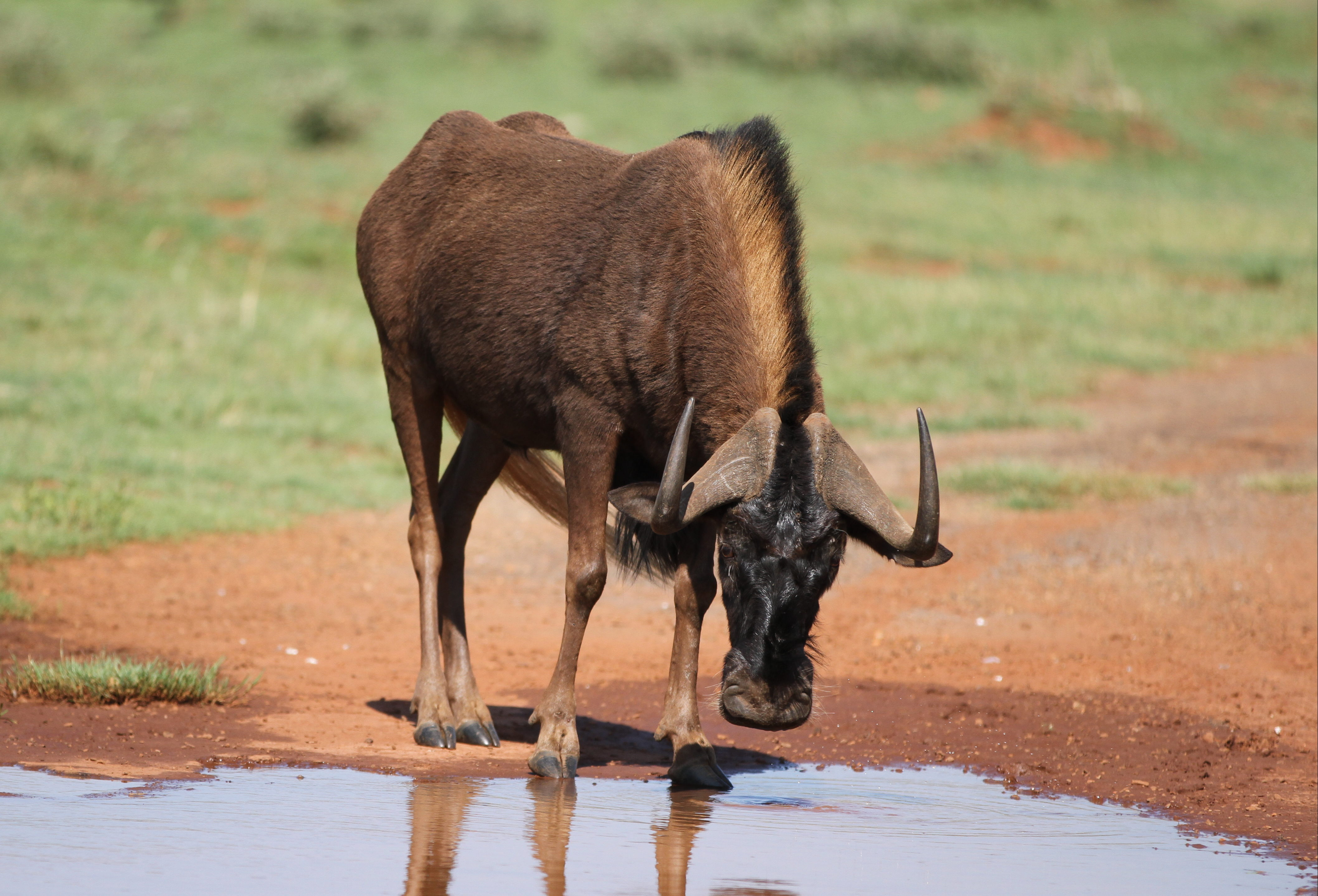 Black wildebeest, or white-tailed gnu, Connochaetes gnou at Krugersdorp Game Reserve, Gauteng, South Africa